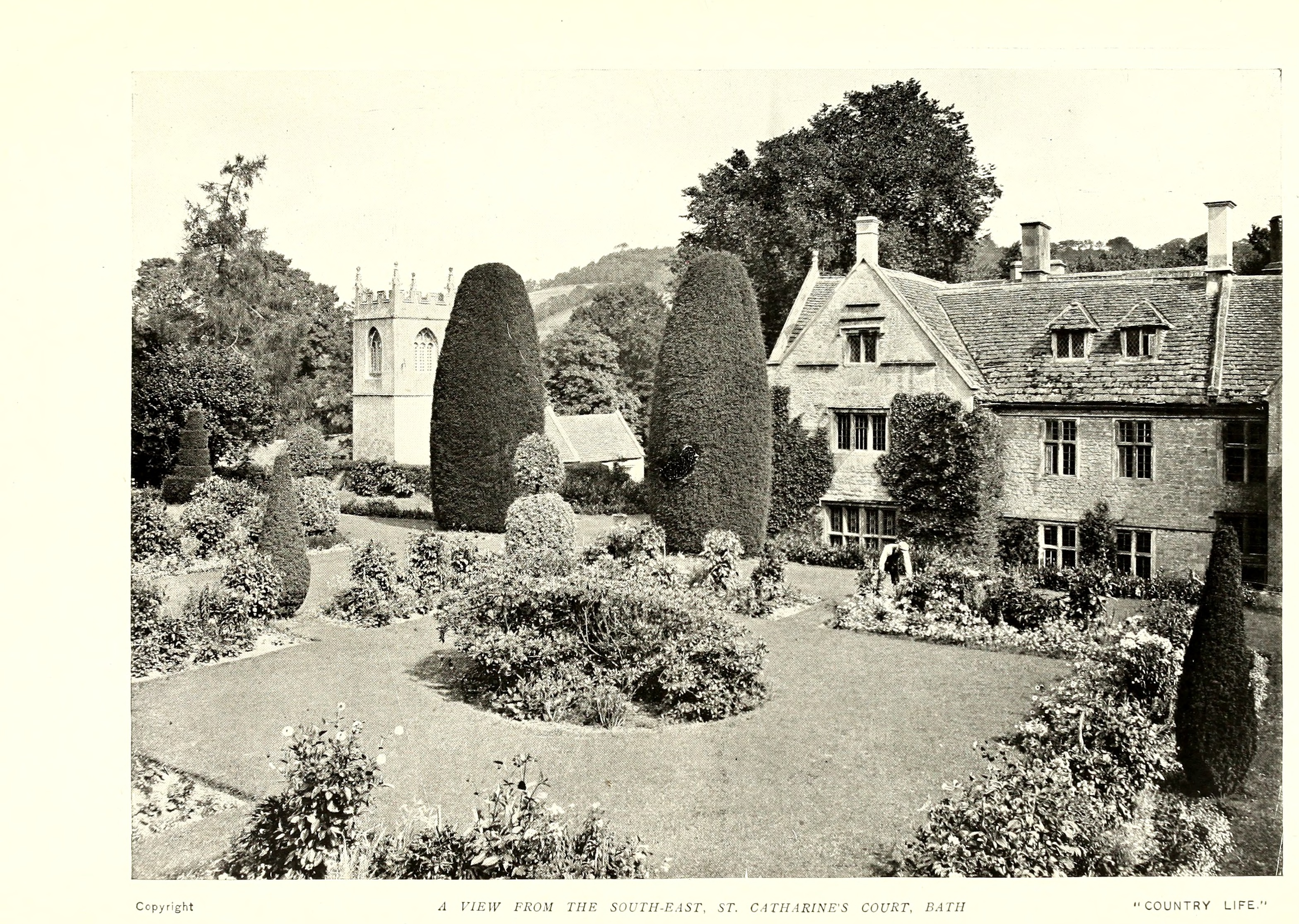 Title: The century book of gardening; a comprehensive work for every lover of the garden Year: 1900 (1900s) Authors: Cook, E. T. (Ernest Thomas), 1867-1915, ed Subjects: Gardening Publisher: London, The Offices of "Country life" (etc. ) Text Appearing Before Image: ( 121 ) Text Appearing After Image: '